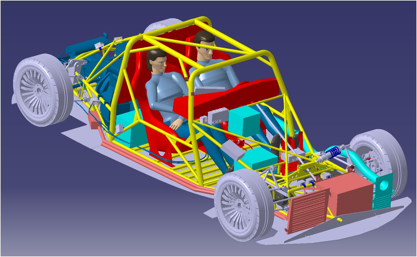 Digital Mock Up of the Symbioz véhicule